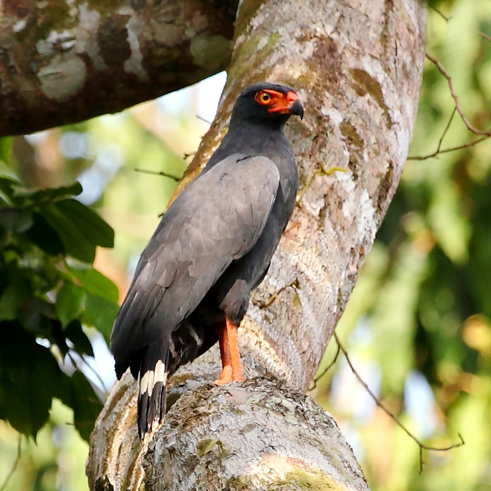 Slate-coloured Hawk at Iranduba - AM - Brazil